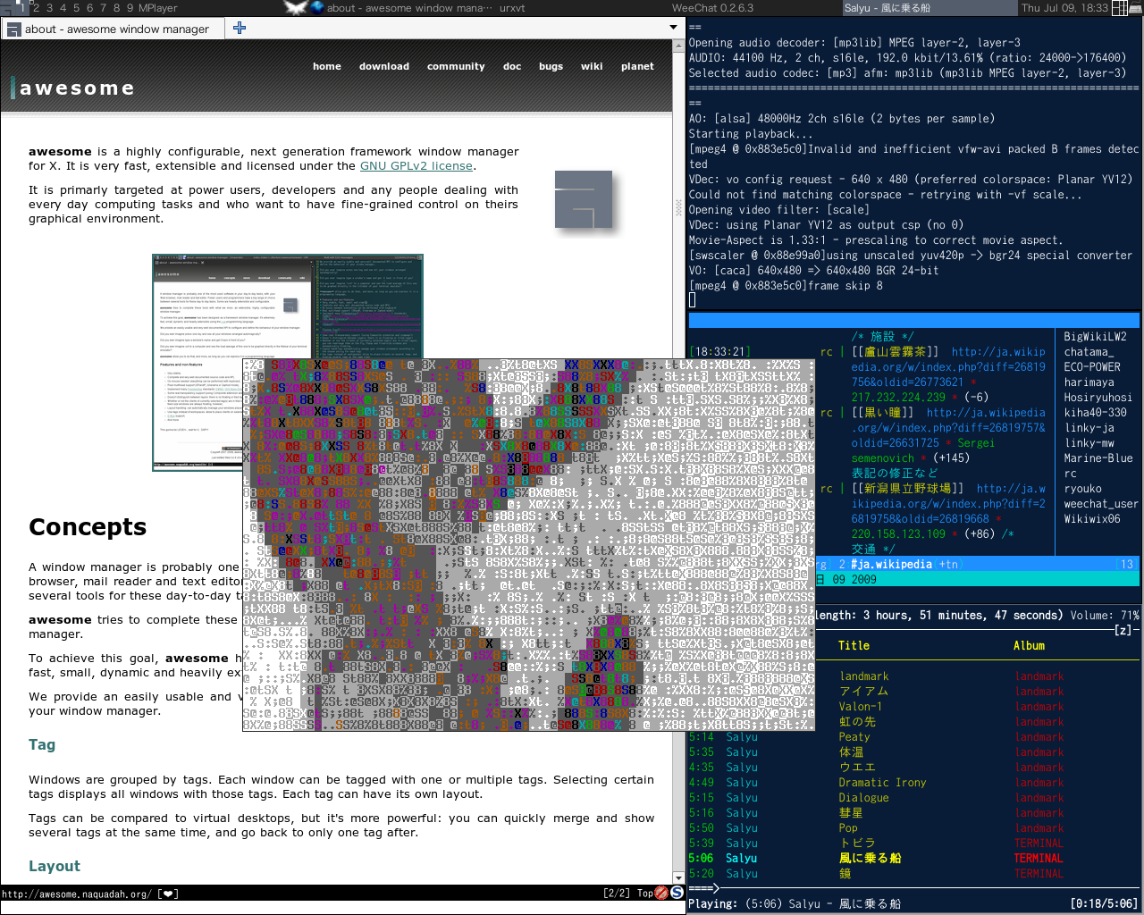 awesome screenshot (Japanese)